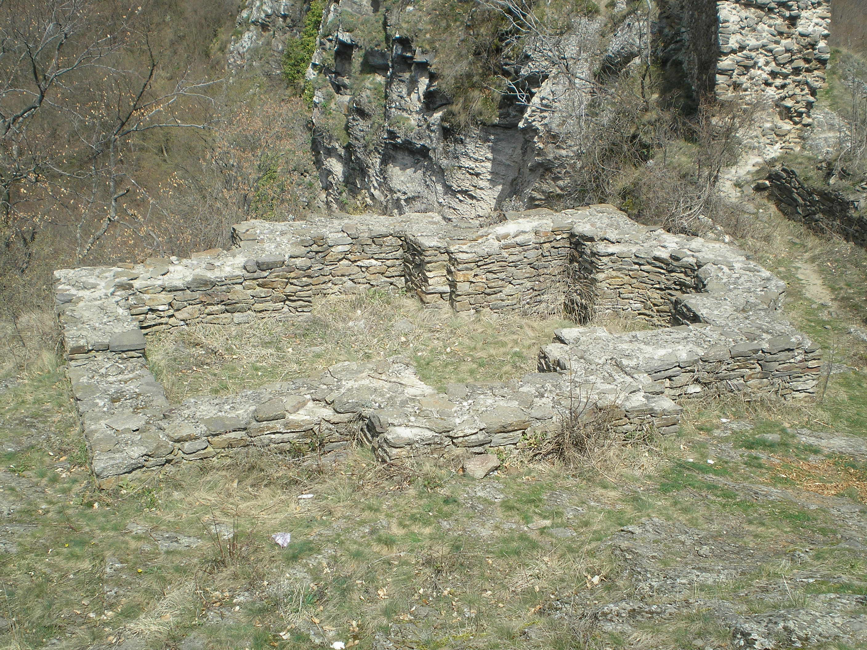 Church fundaments in Markovo Kale Fortress in Southern Serbia